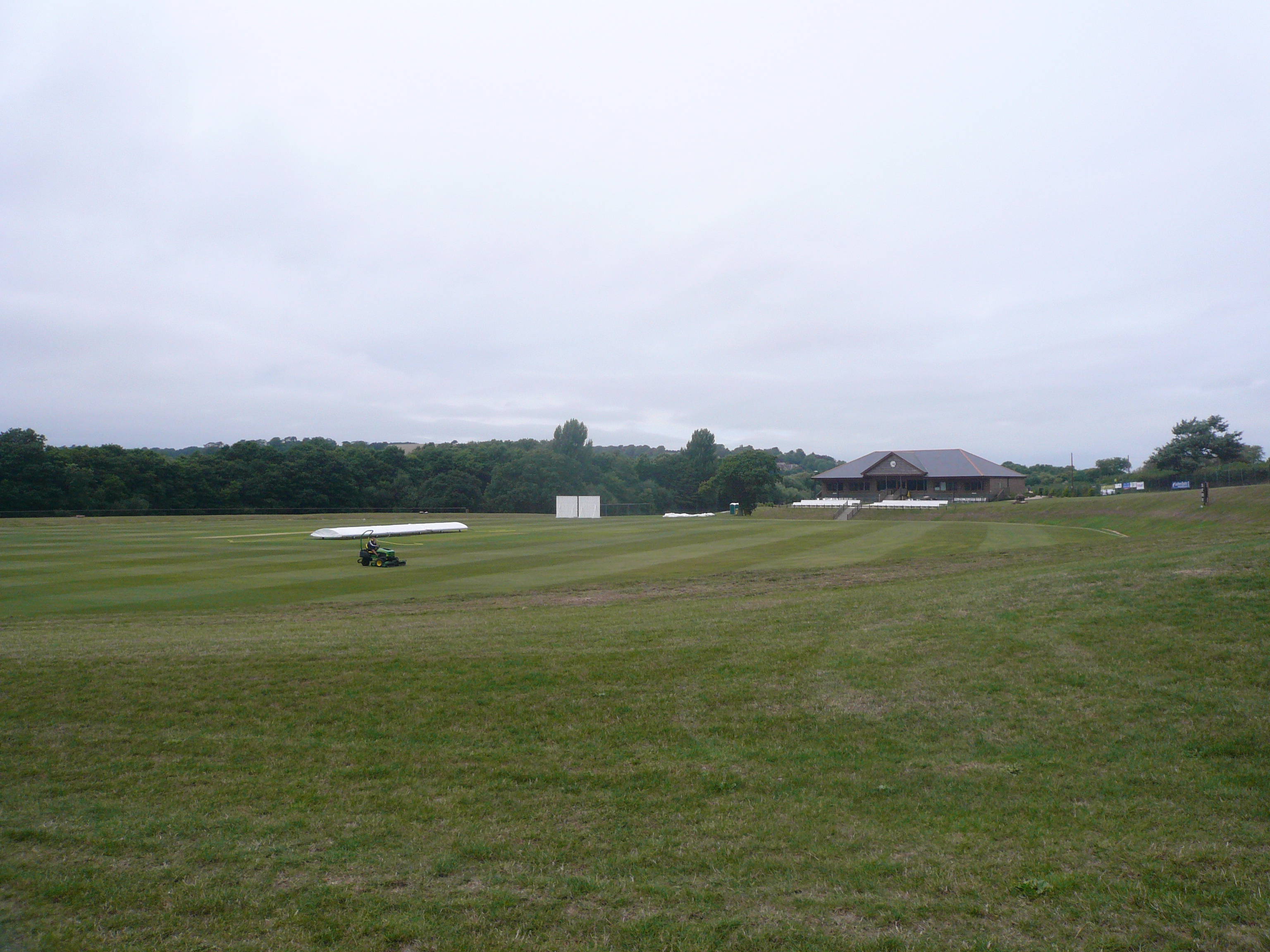 Newclose County Cricket Ground recently built in 2008 in Newclose, near Blackwater, Isle of Wight.